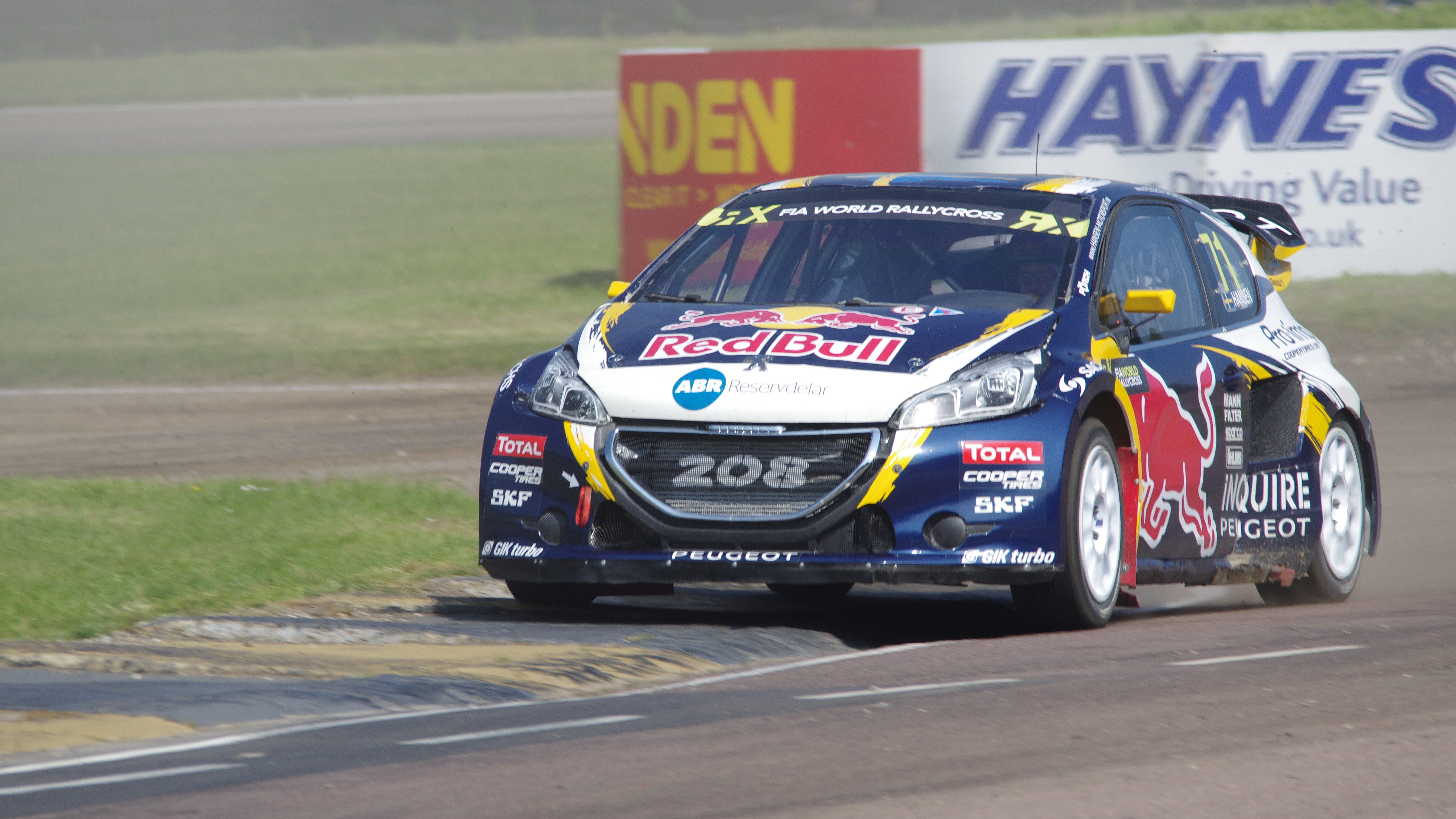 Start-Finish straight